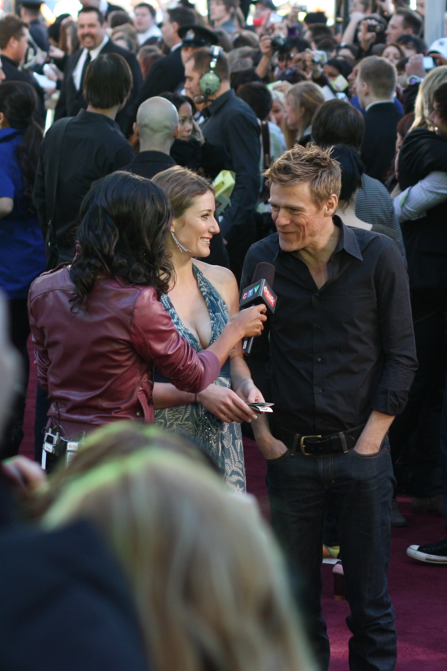 On the red carpet at the 2009 Juno Awards